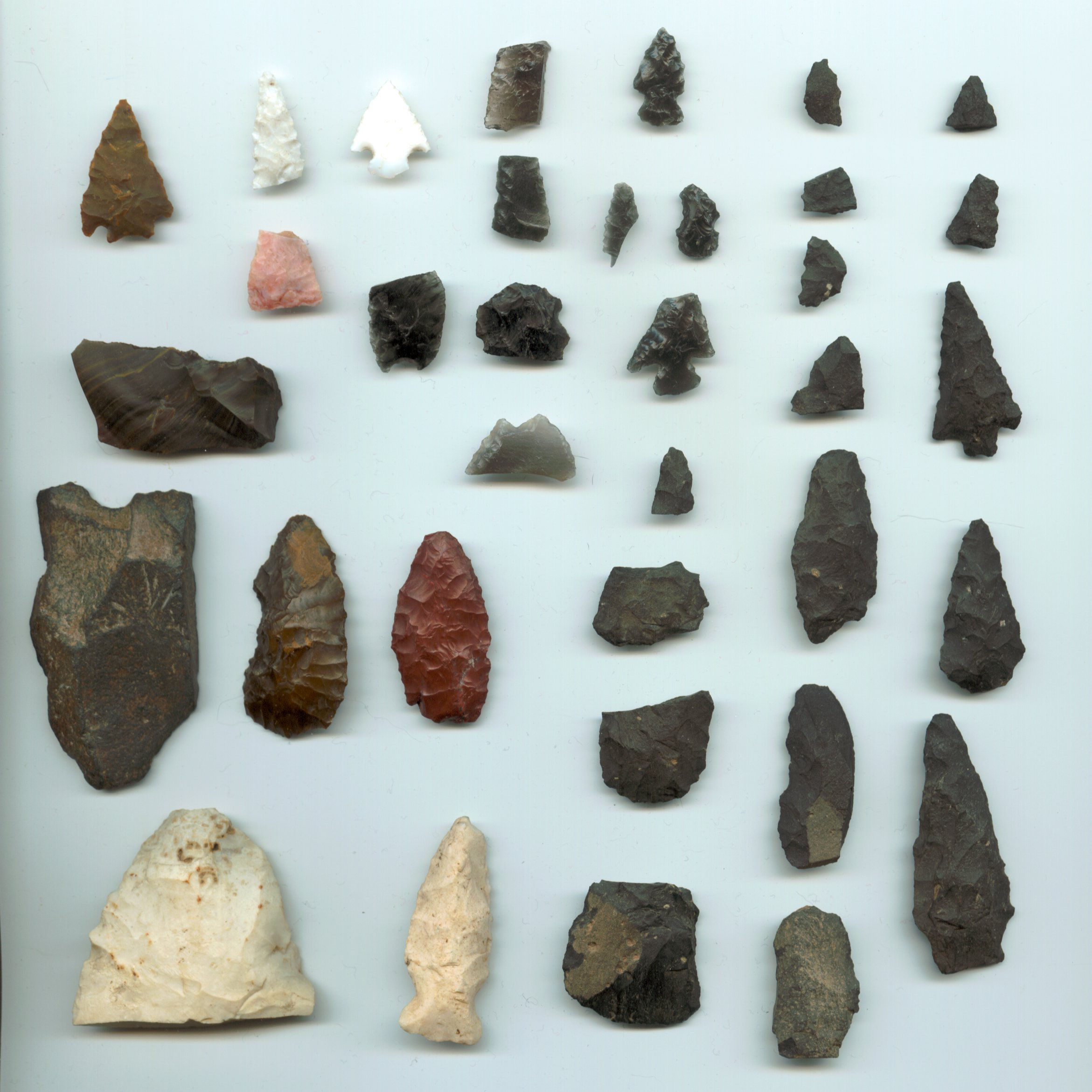 An assortment of Native American artifacts. The two white points on the bottom left were found in Illinois; all others were found in the Reno, Nevada area. See also: Image:Artifacts (front).jpg